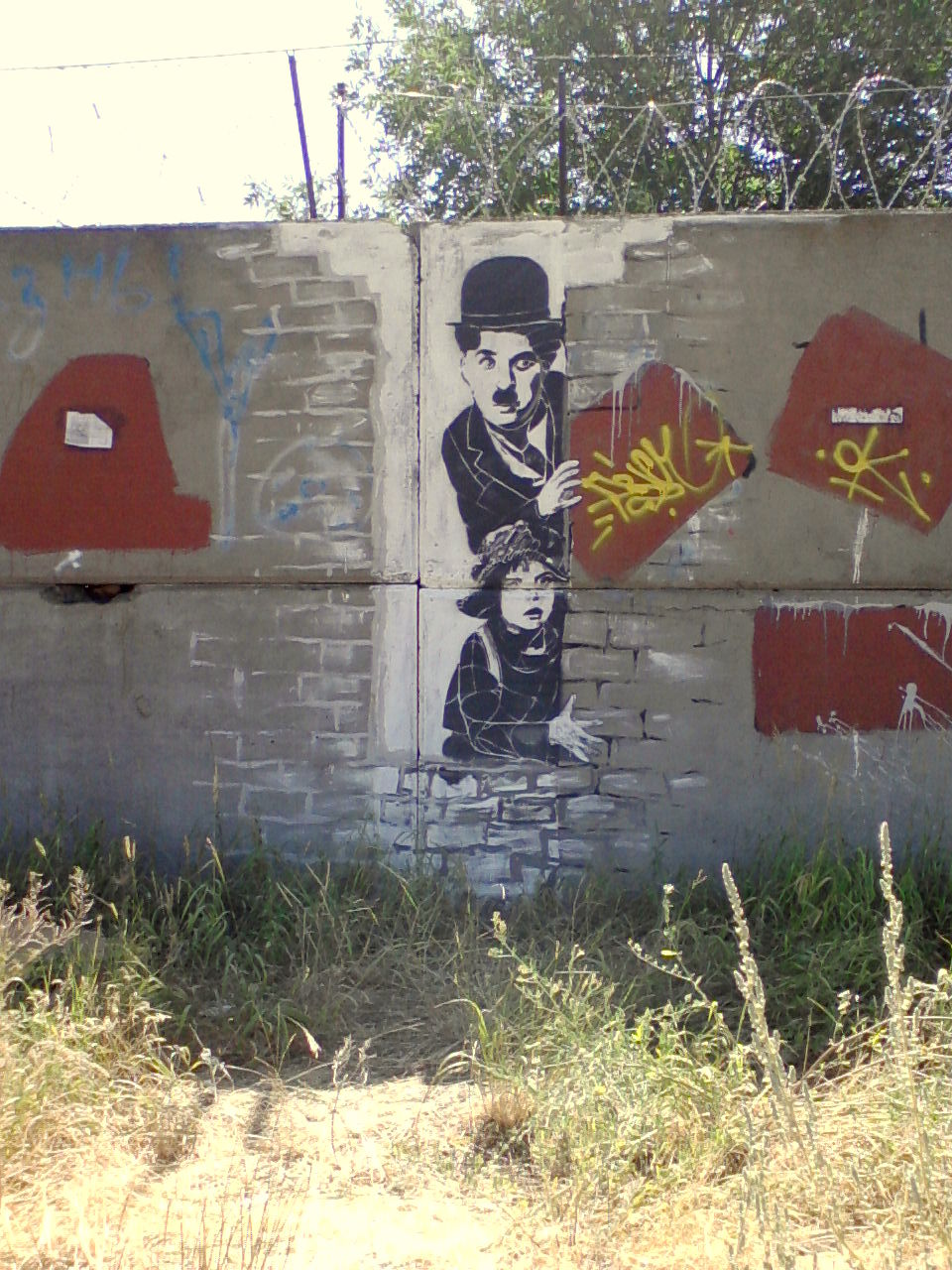 A stencilled graffiti, from Volgograd Russia. See the stencil technique illustration in the "before" image below.